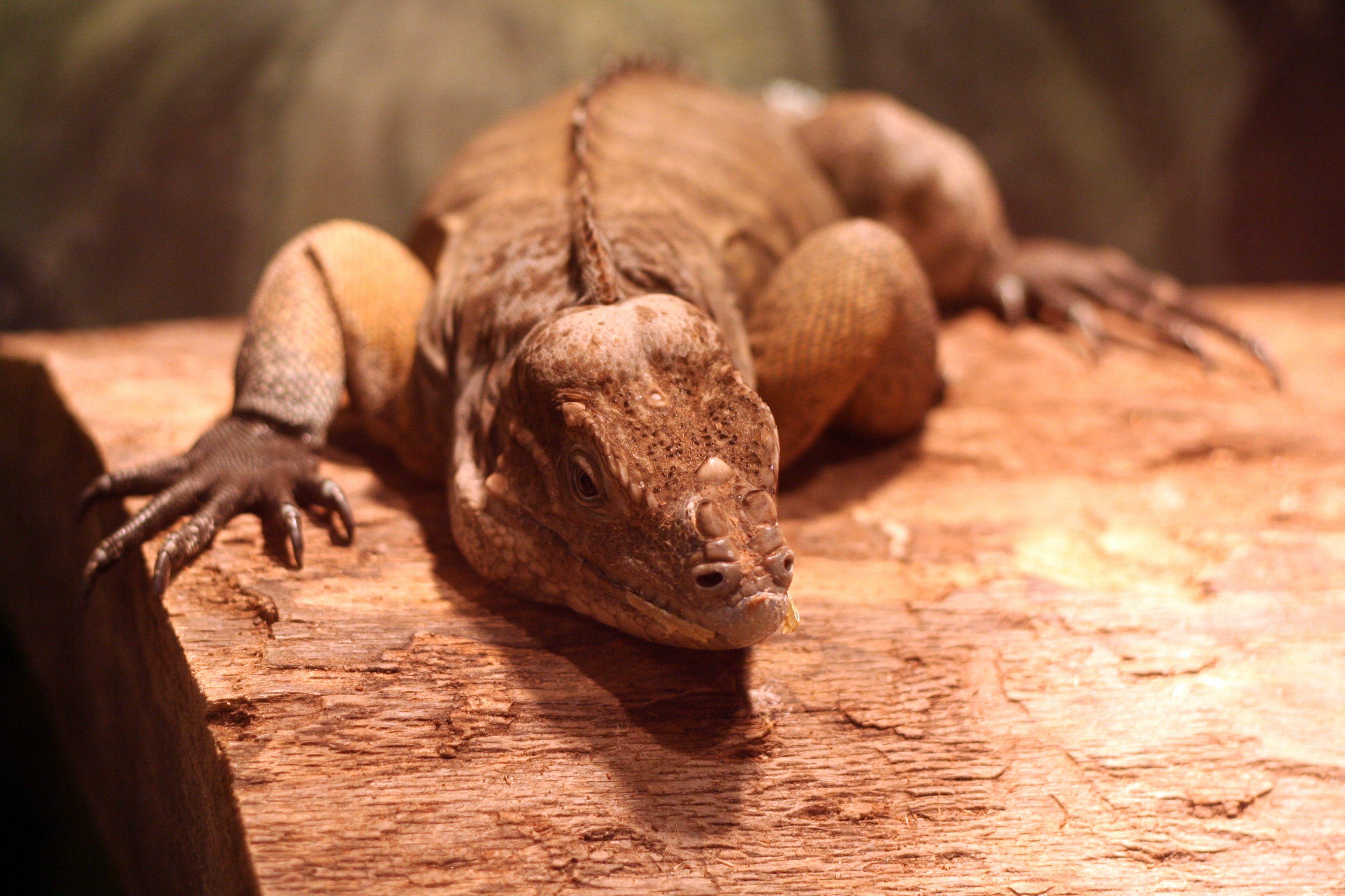 Rhinoceros Iguana taken at the Natural Science Center of Greensboro